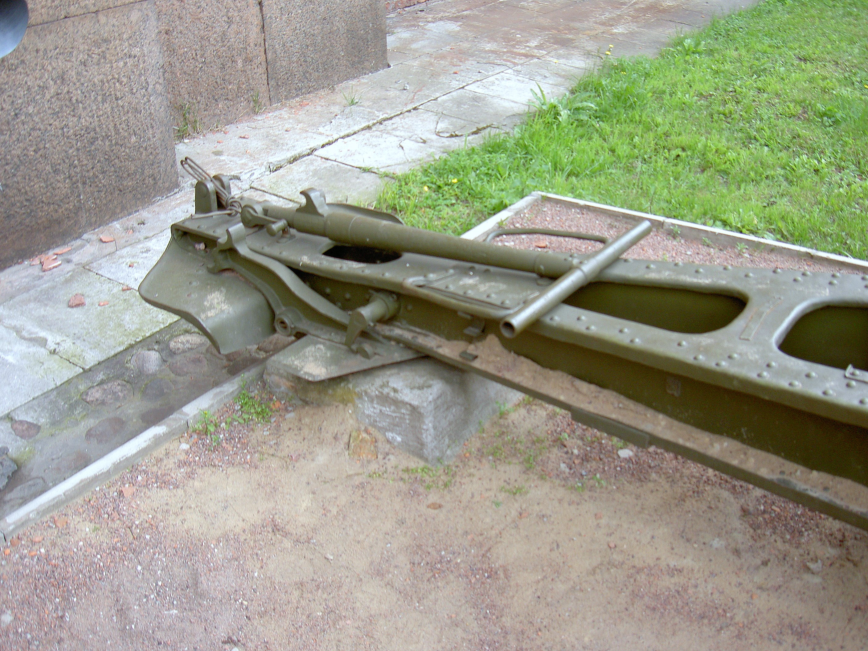 107-mm gun (1910/1930) in Saint Petersburg Artillery museum